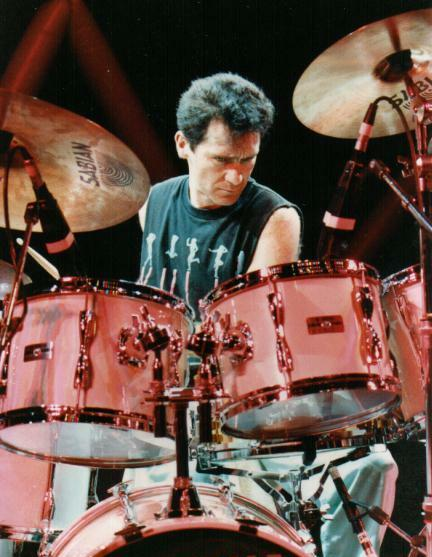 Photograph of Derek Pellicci